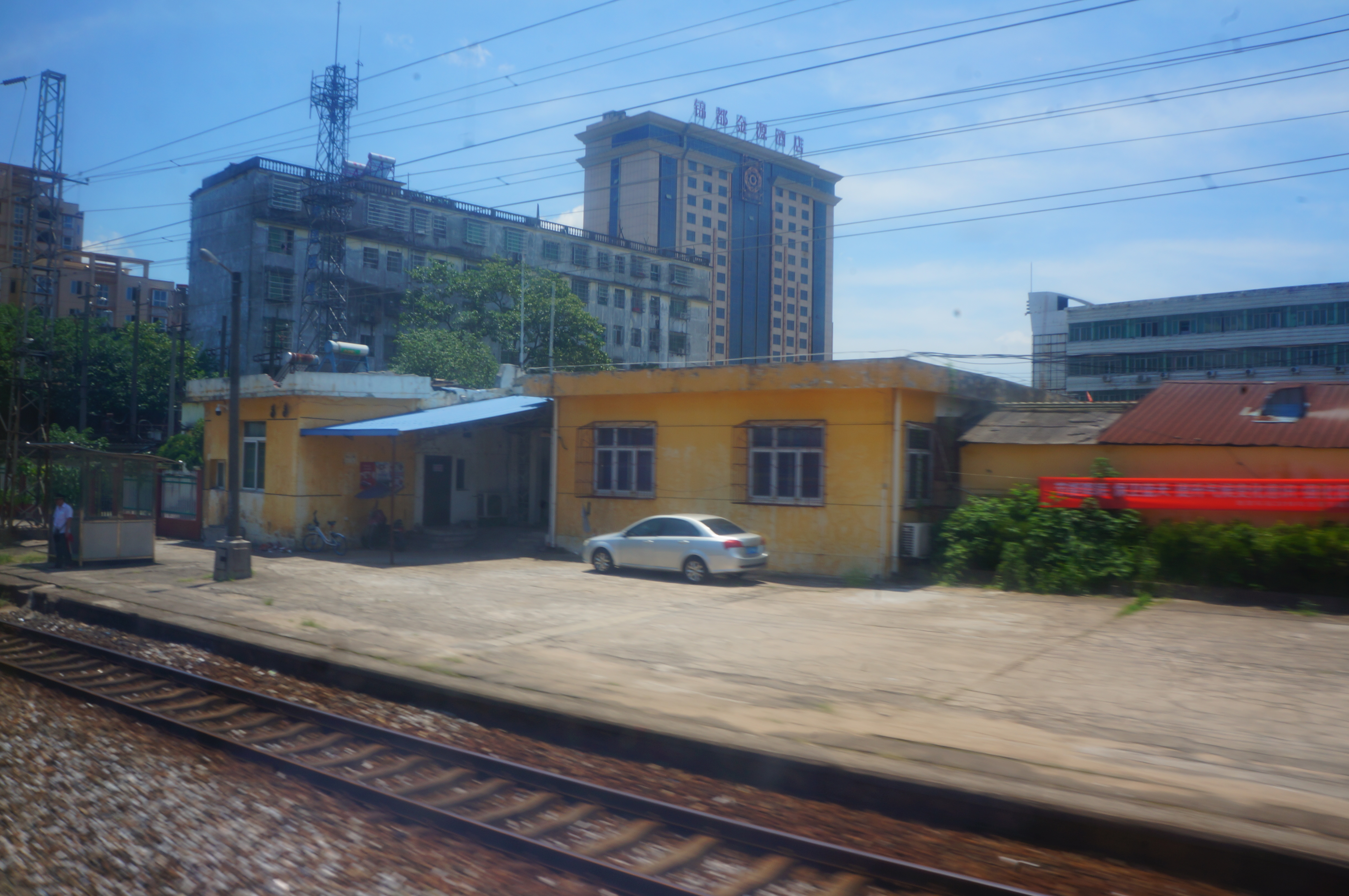 201806 Station Building of Yingtannan Station